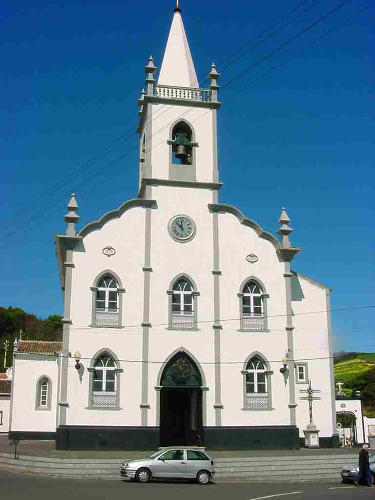 Front façade of the Church of Nossa Senhora de Guadalupe, Agualva, Praia da Vitória, Terceira (Azores), Portugal